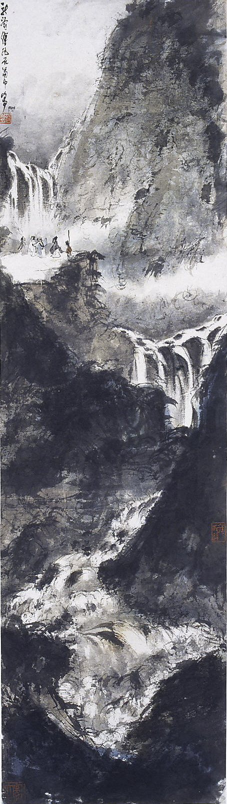 Viewing a Waterfall From a Mountain Ridge